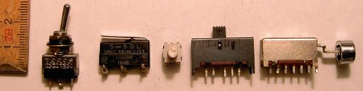 Image of electrical changeover switches. From left: Single pole double throw switch. Single pole double throw microswitch. Print mountable single pole double throw switch. Single pole many throw switch. Four pole double throw switch.